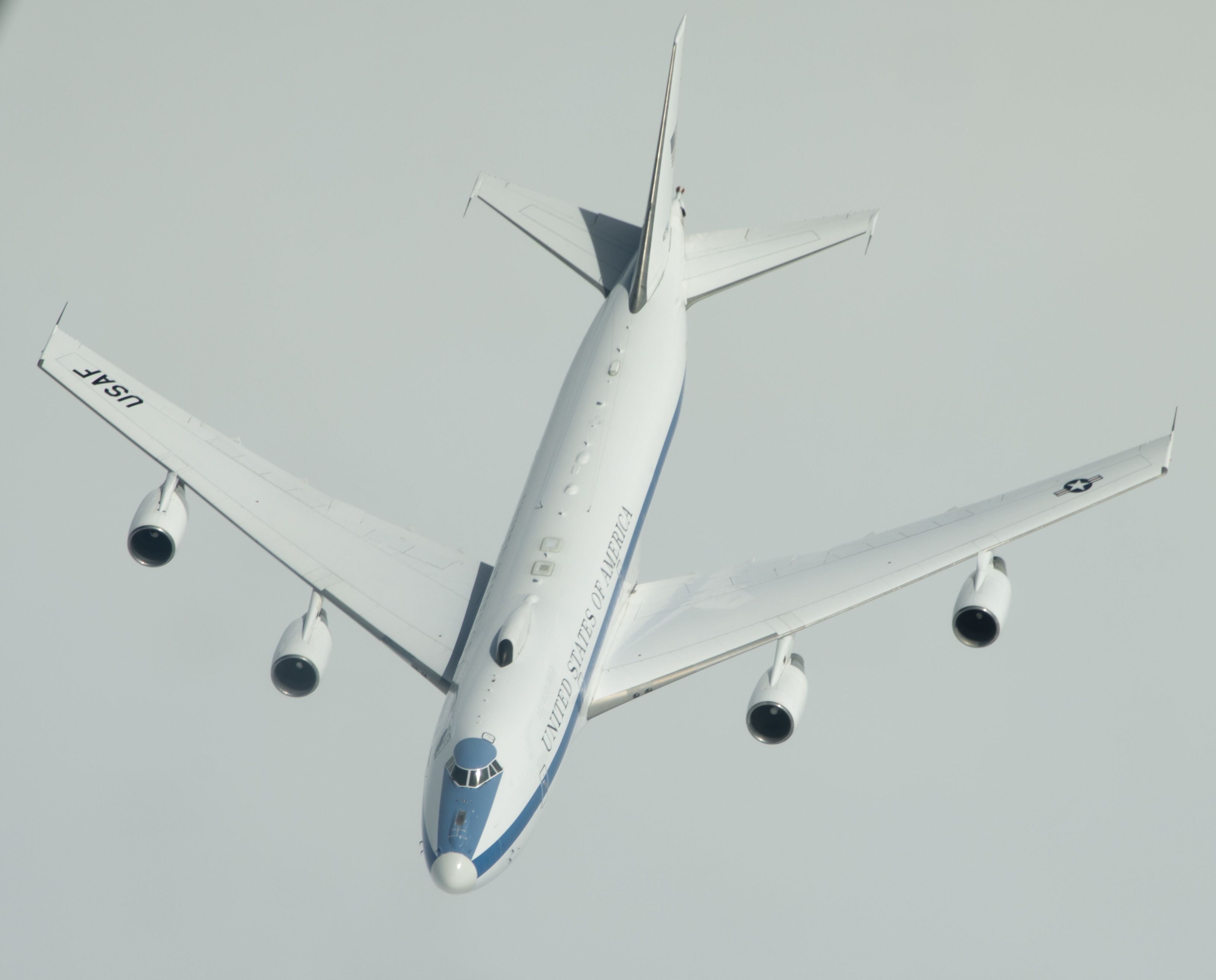 An E-4B from Global Strike Command, Barkesdale Air Force Base, La., flies below a KC-10 Extender from Travis Air Force Base, Calif., during a local mission June 12, 2017. To provide direct support to the President, the Secretary of Defense, and the JCS, at least one E-4B National Airborne Operations Center is always on 24-hour alert, 7-days a week, with a global watch team at one of many selected bases throughout the world. (U.S. Air Force photo/Staff Sgt. Nicole Leidholm/Released))